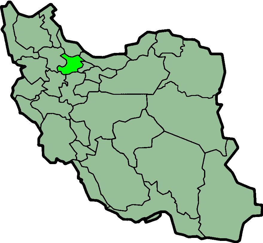 Province of Qazvin, Iran